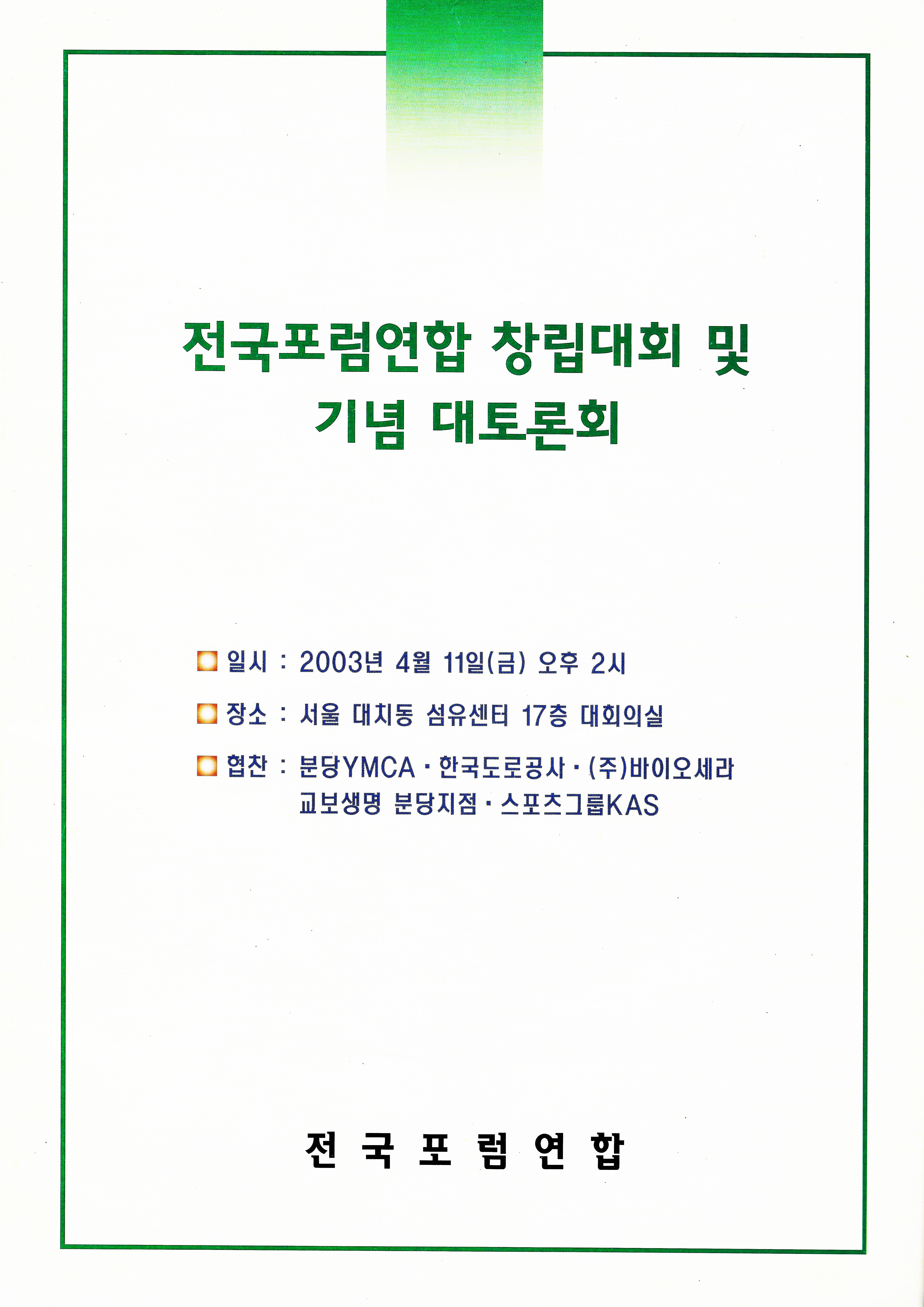 Korea Forum Union's founding brochure cover & poster